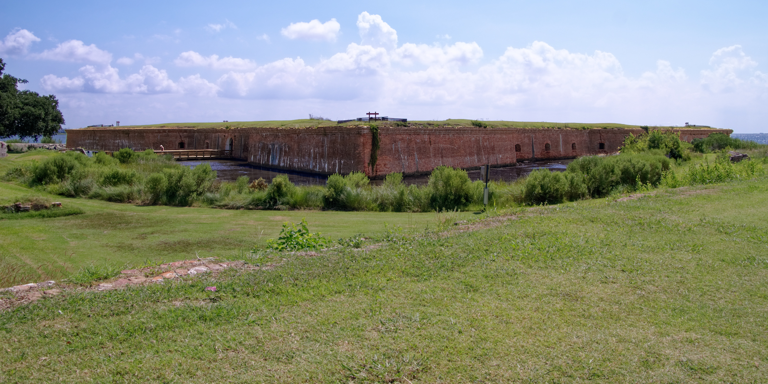 Ft. Pike's (New Orleans, LA, U.S.A.) landward side, as seen from atop the glacis, looking east-northeast with the Rigolets in the background, taken July 12, 2008